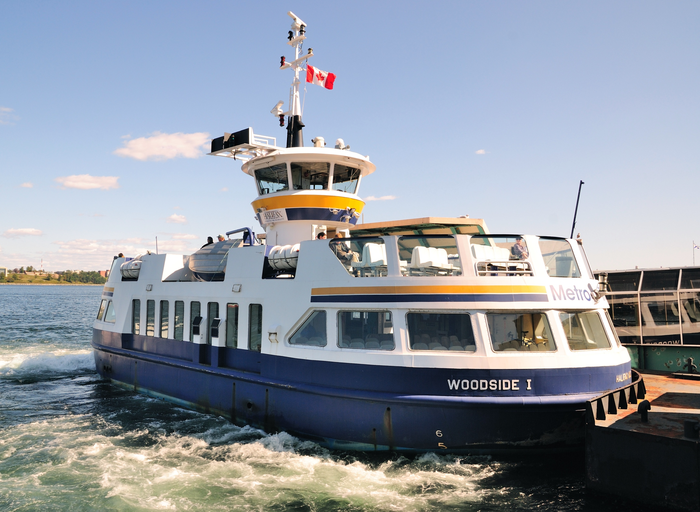 Halifax, Canada: Ferry to Dartmouth (Woodside I)